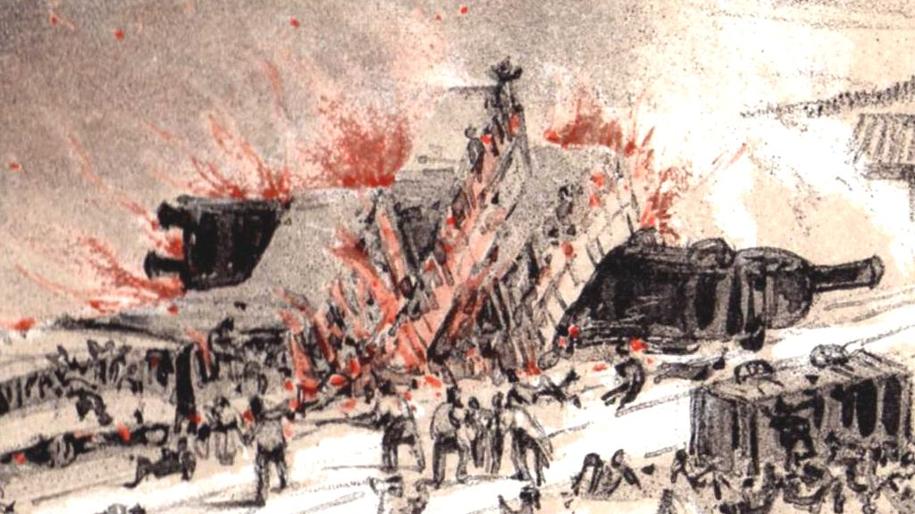 Versailles train crash in 1842, 55 people were killed included the French explorateur Jules Dumont d'Urville.